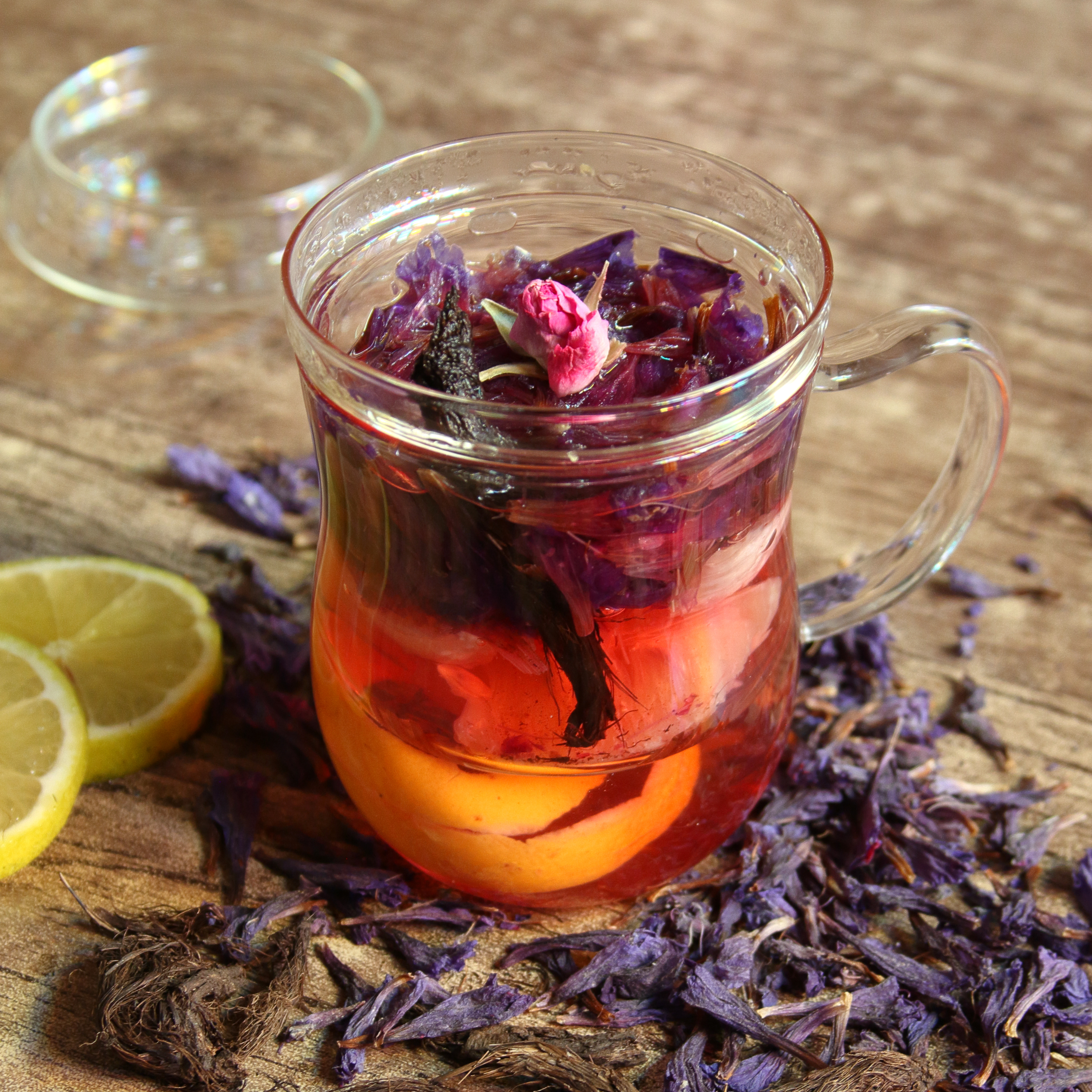 Viper's-buglosses drink or as Iranians say "gol e gaavzaboon" is an old traditional drink. it makes you feel relaxed when drunk hot. viper's-buglosses usually brew with valerian roots and lemon. It has a really good taste especially with rock candies. Give it a try and enjoy its medical benefits. This photo has been taken in the country: Iran